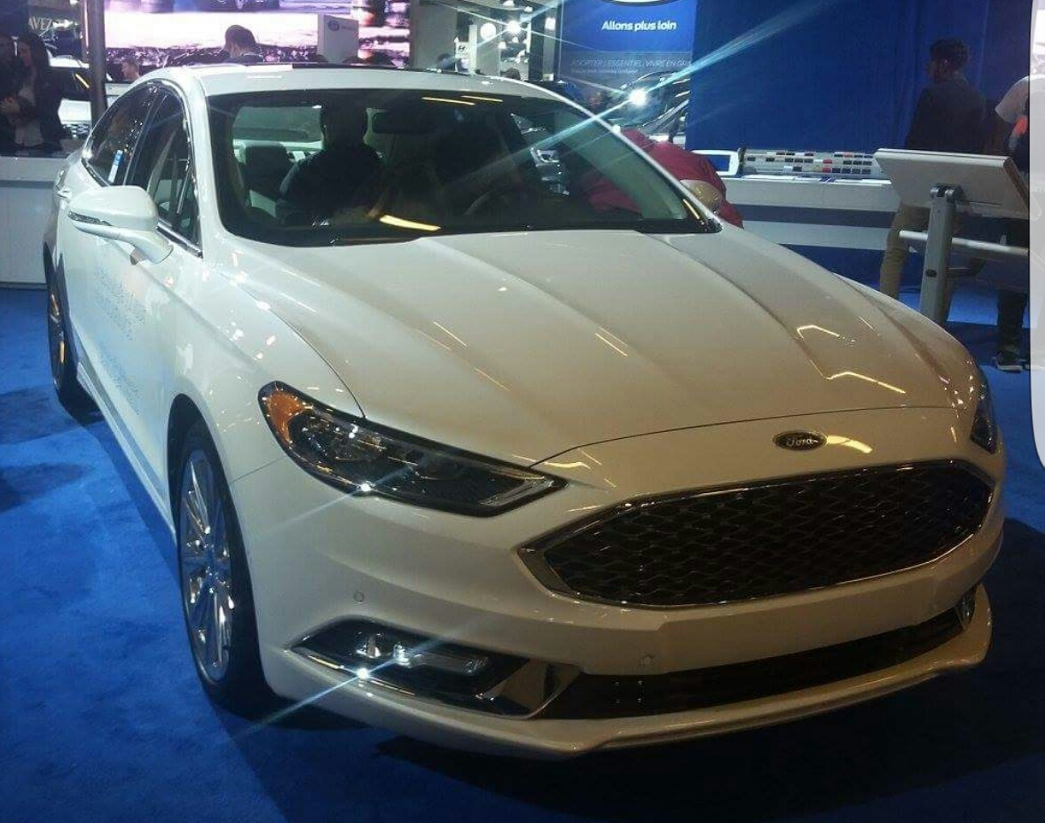 2017 Ford Fusion photographed in Montreal, Quebec, Canada inside the 2017 Montreal International Auto Show.